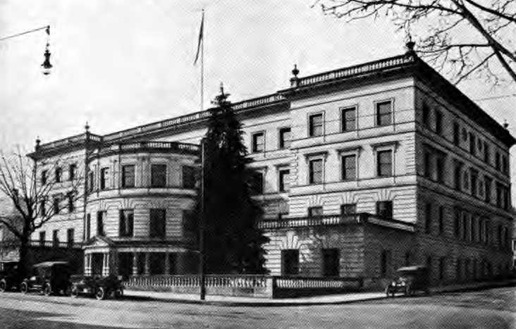 Portland, Oregon City Hall in Portland, Oregon. From: Carey, Charles Henry. (1922). History of Oregon. Pioneer Historical Publishing Co.